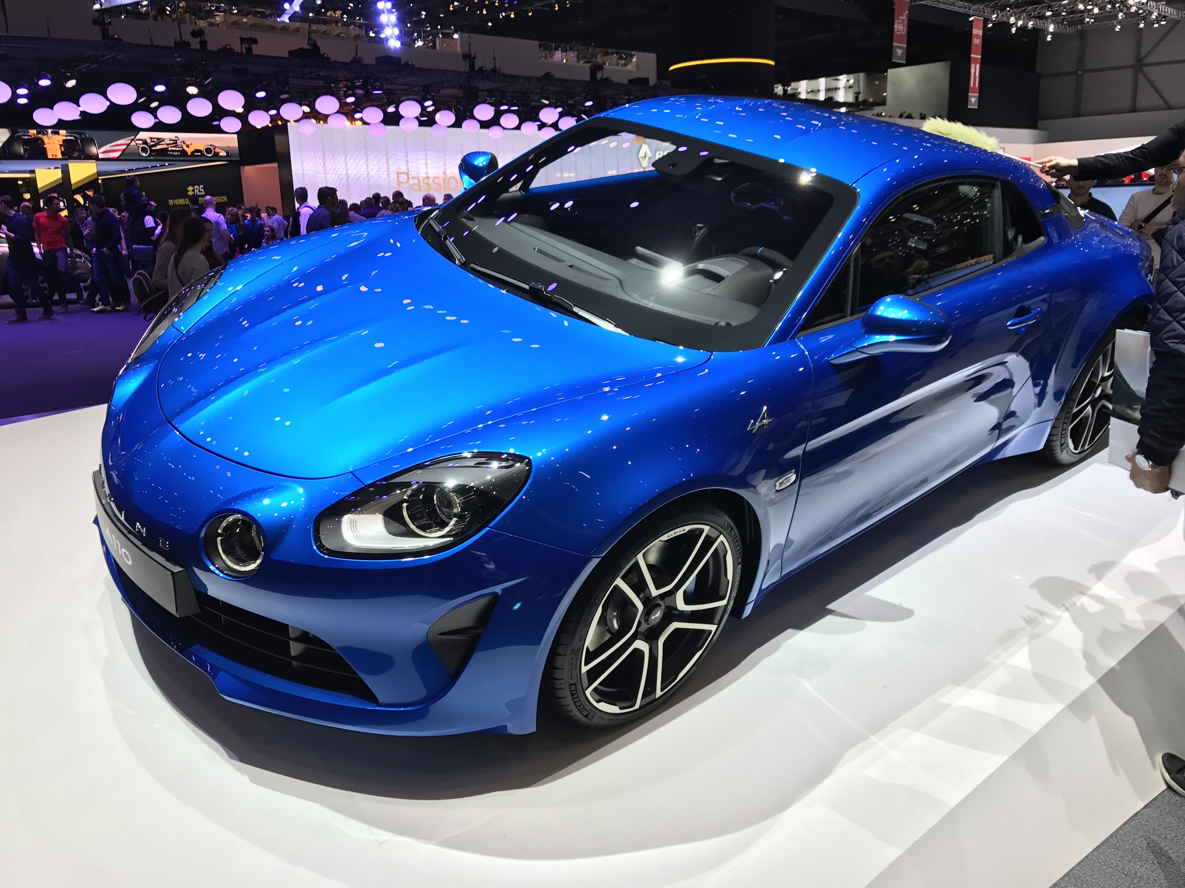 2018 Alpine A110 premiere edition.